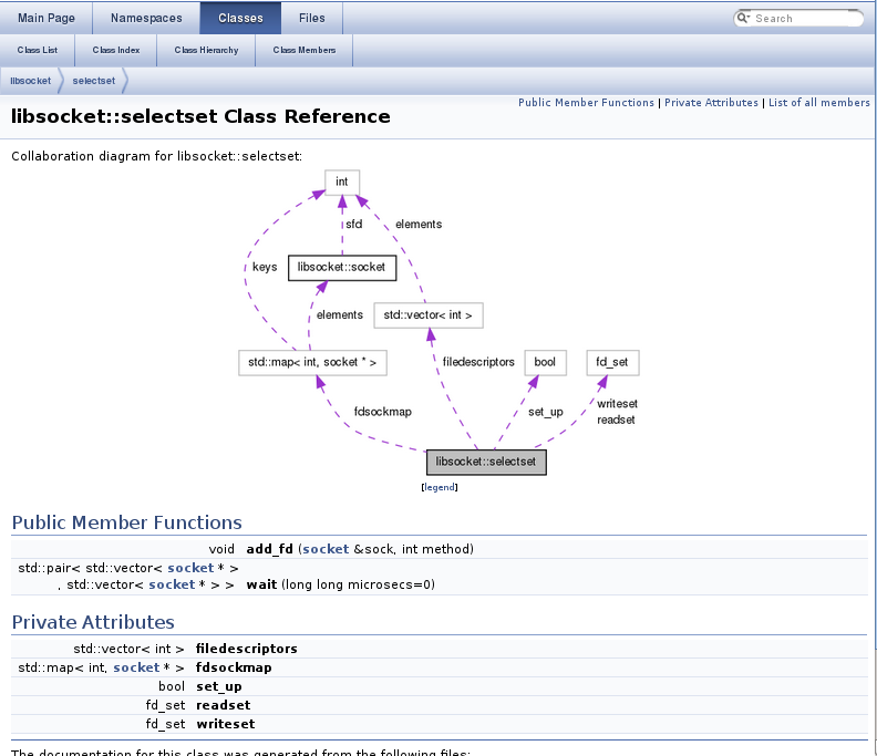 Screenshot of a doxygen-generated Documentation